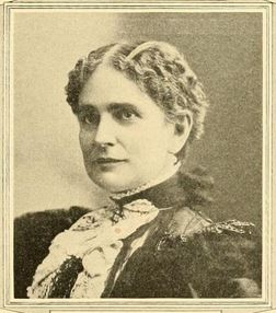 Ida Saxton McKinley